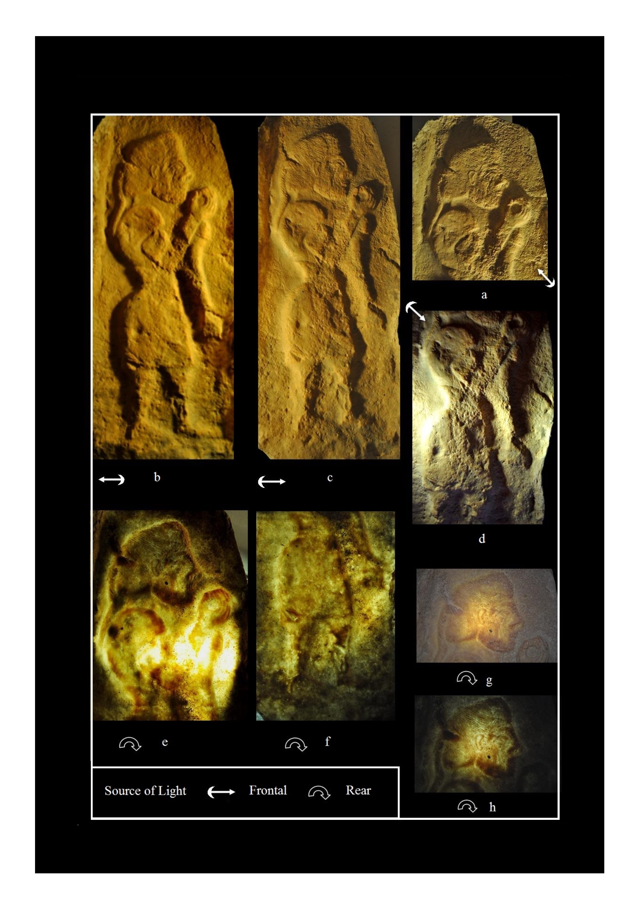 Archer with hand holding a piece of meat in front of the mouth